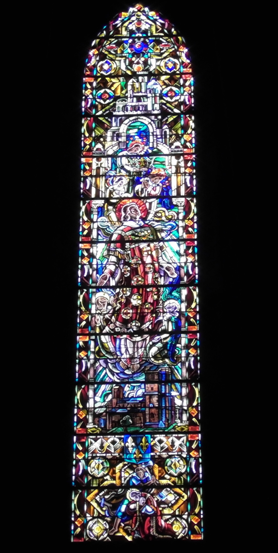 Central stained glass window of the Saint-Félix church of Lézignan-Corbières